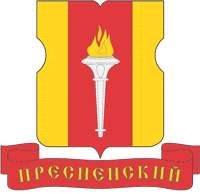 Presnensky (rayon of Moscow), coat of arms